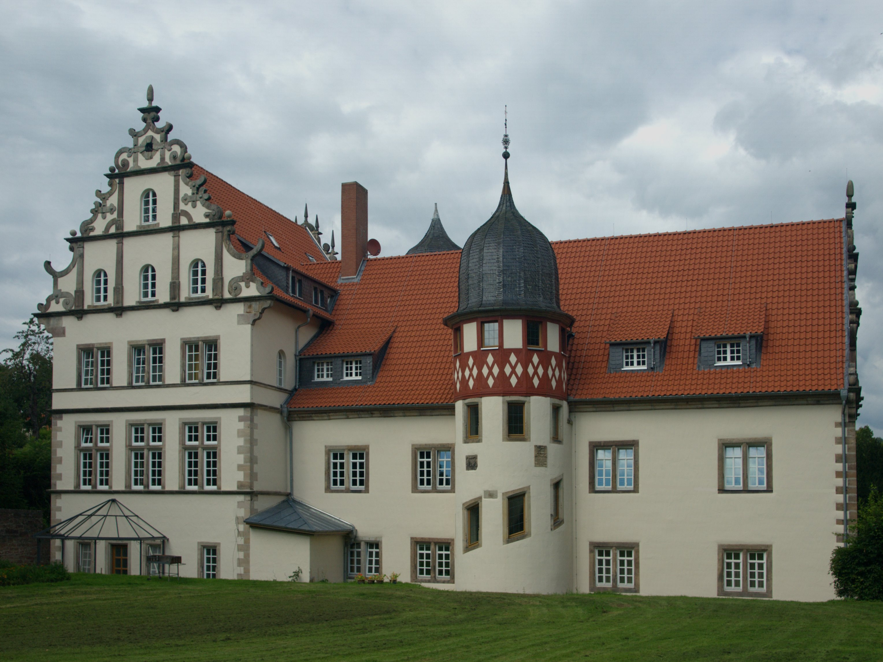 Northwestern view of Castle Buchenau